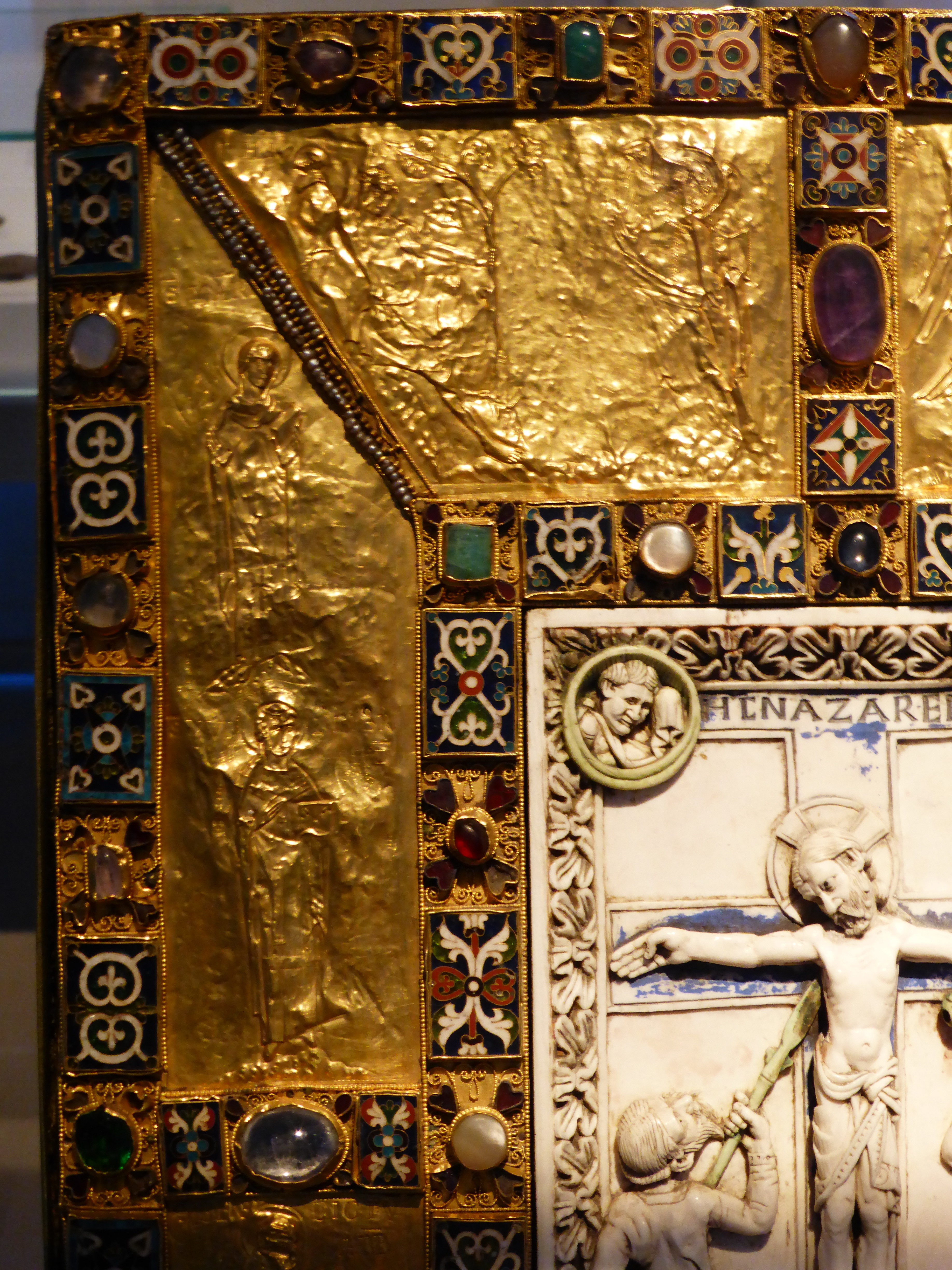 Germany, Bayern, Nuremberg